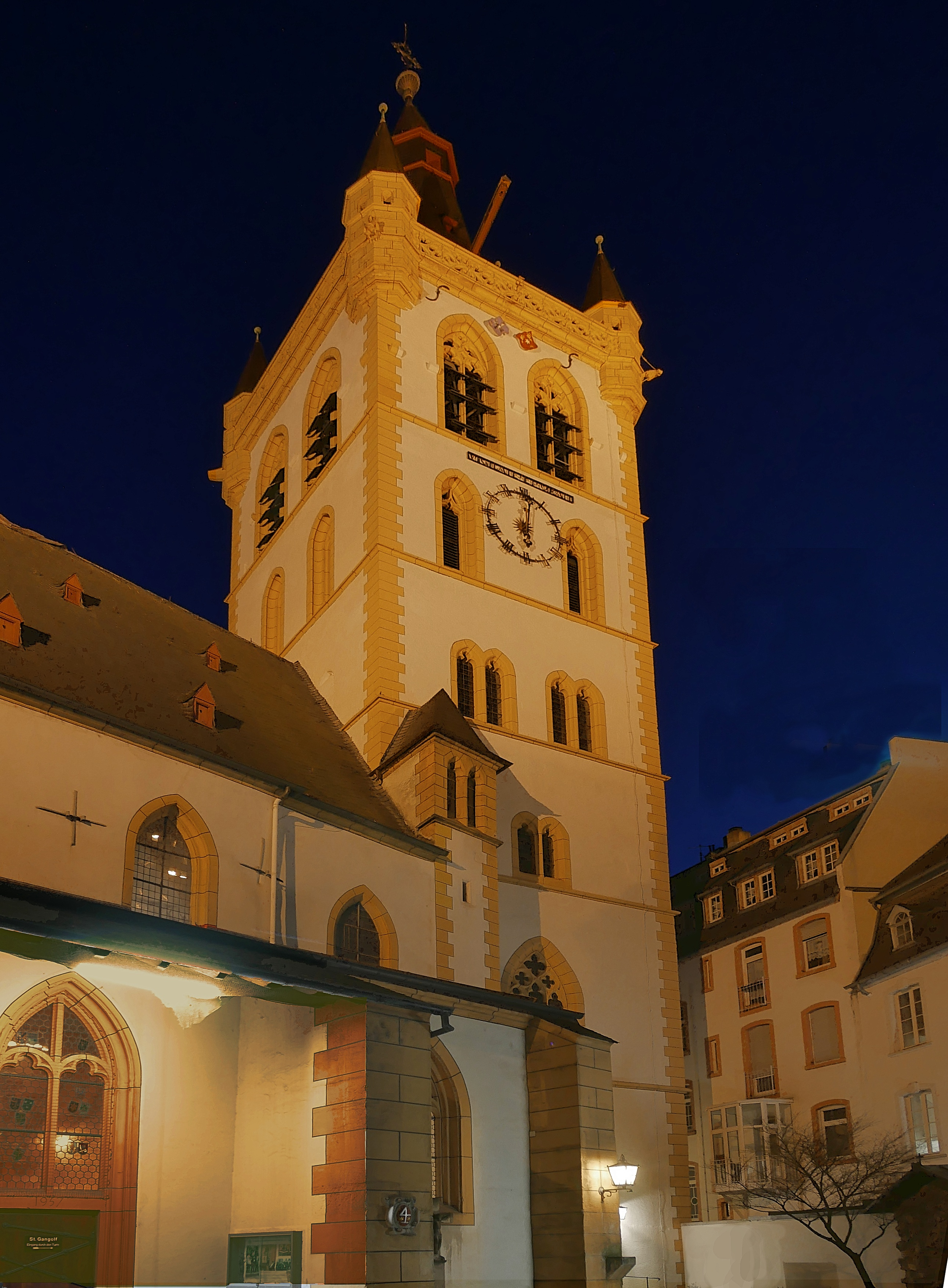 Trier (Germany) St. Gangolf church tower